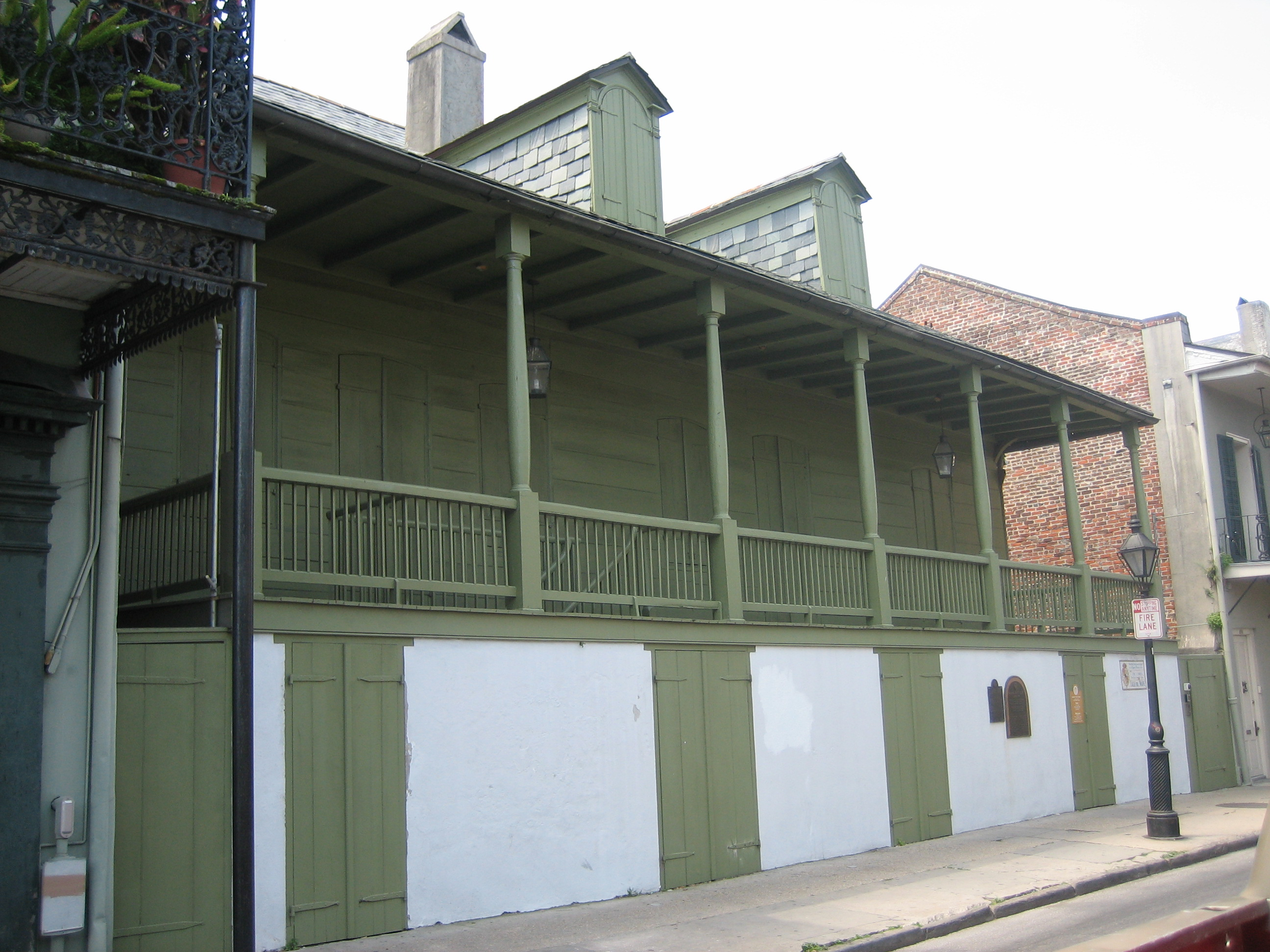 Summary New Orleans: The "Madame John's Legacy" building in the French Quarter, view facing away from the Mississippi.